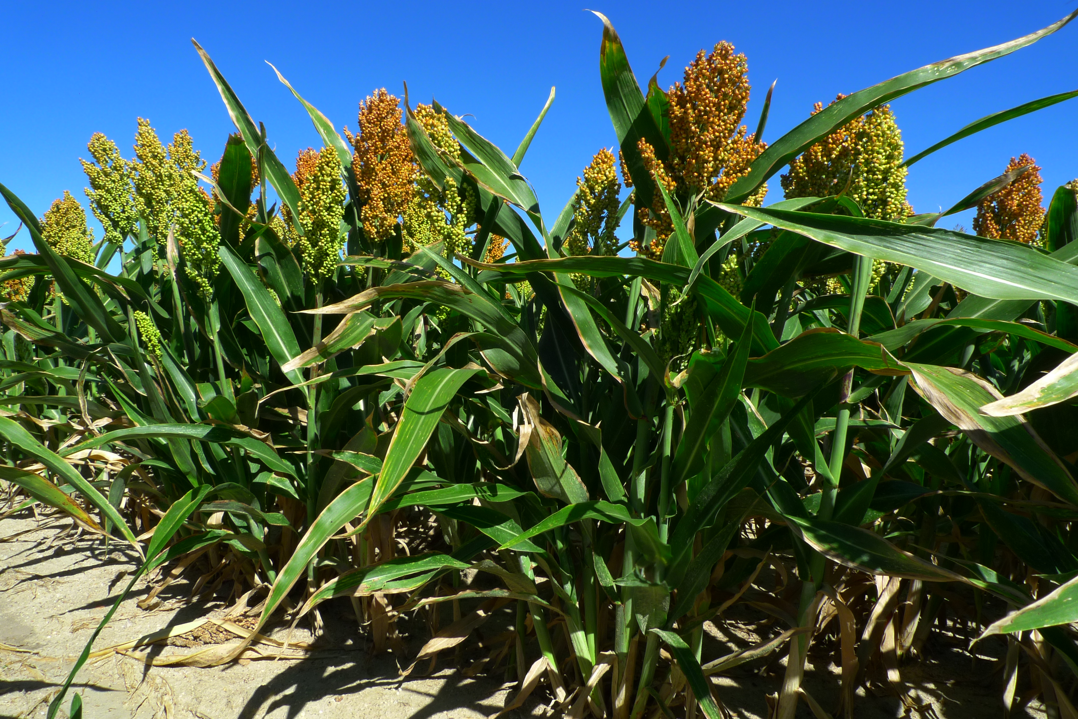 Sorgo (Sorghum) en la Zona regable del Río Adaja (Ávila)